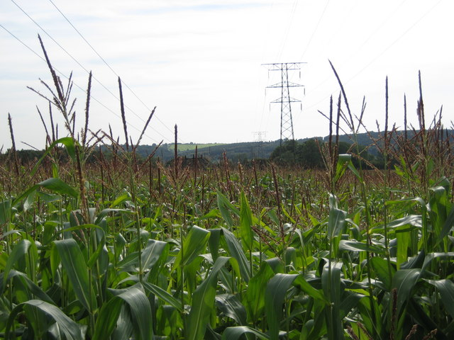 Electricity Pylons The powerlines stretch across the fields towards a former power station site that was Meaford Power Station. Local distribution cables can be seen on the left.